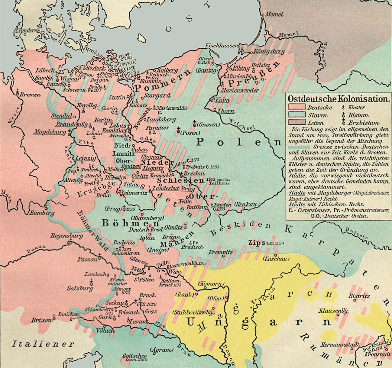 German map of the German & others populations & settlements in the Middle-Age between 9th century and c. 1400 AD.